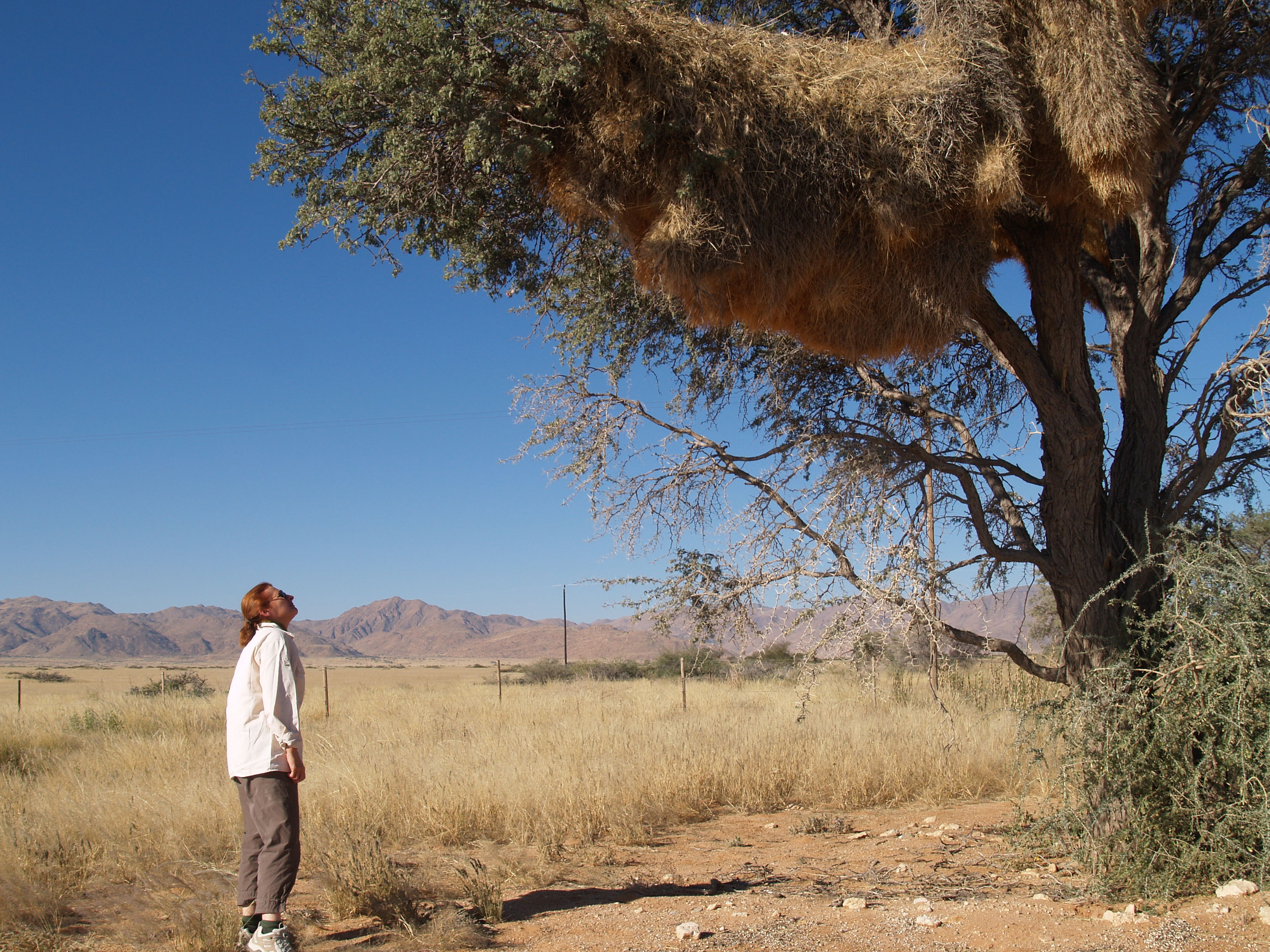 A communal nest made by Sociable Weavers in Namibia.